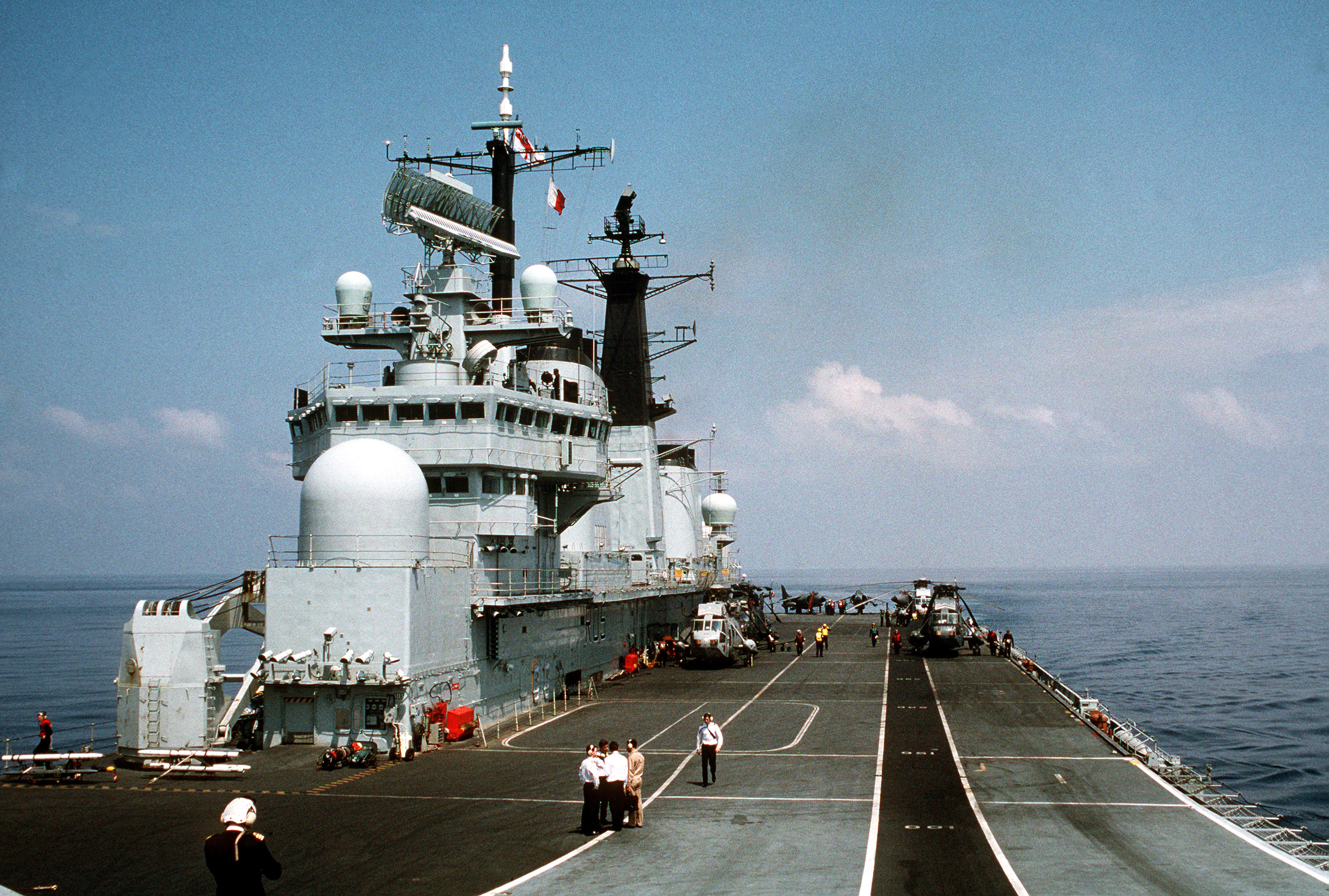 Flight deck crew members gather around a British Royal Navy 814 Naval Air Squadron Westland Sea King HAS.5 aboard the British light aircraft carrier HMS Invincible (R05) during the NATO Southern Region exercise DRAGON HAMMER '90. In the background are British Aerospace Sea Harrier FRS.1 from 800 Naval Air Squadron.